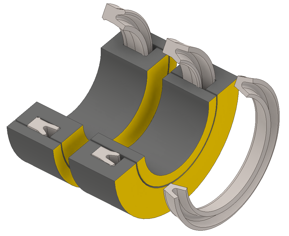 Three Variants of a sealant ring.